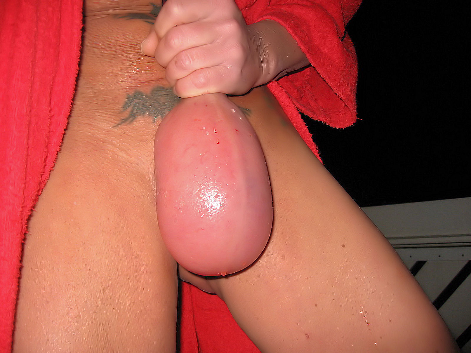 human scrotum after injection with 1 litre of isotonic (0.9%) sodium chloride solution